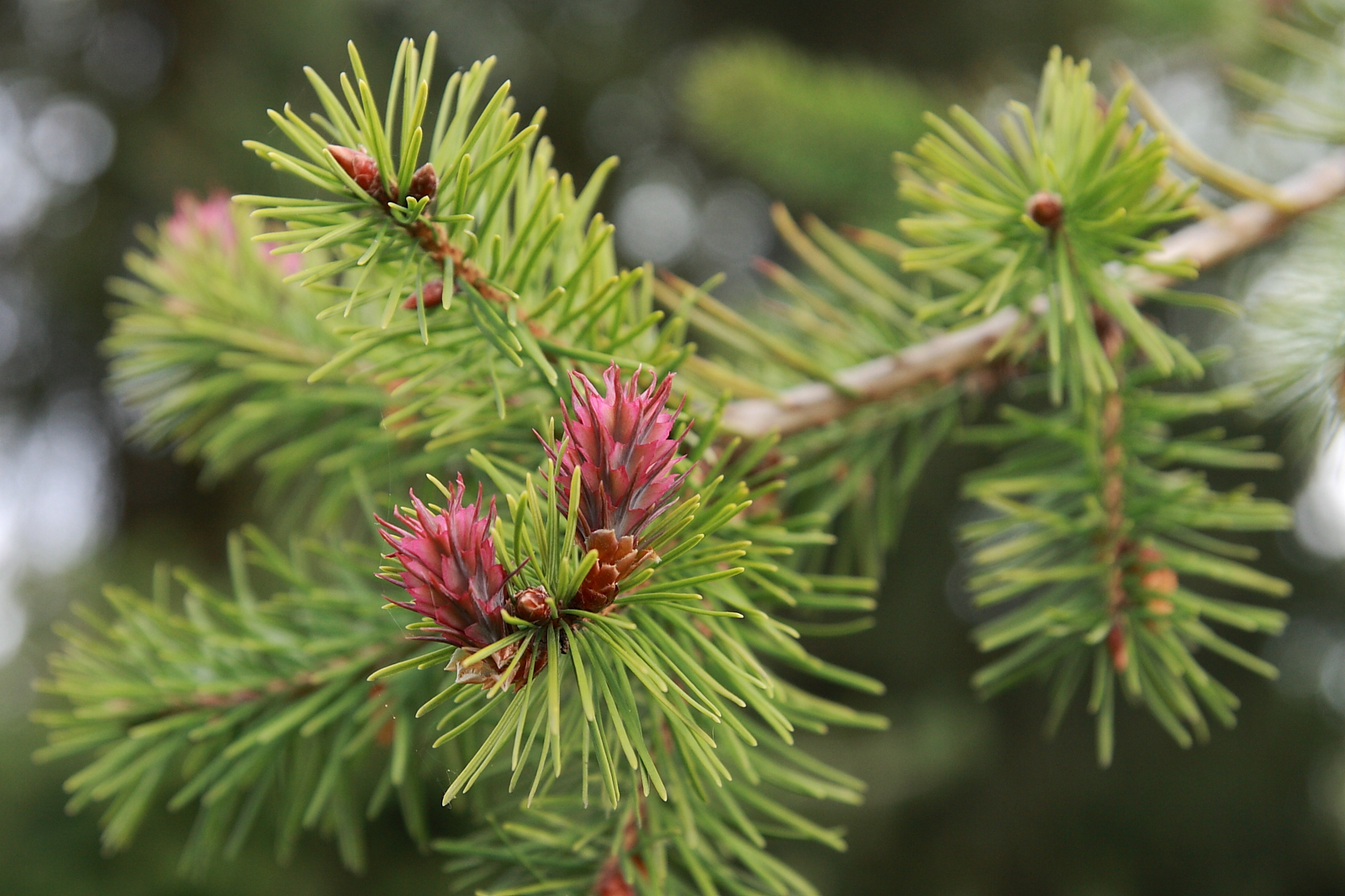 Pseudotsuga menziesii seed cones during pollination. Cultivated tree in Estonia, Keila.